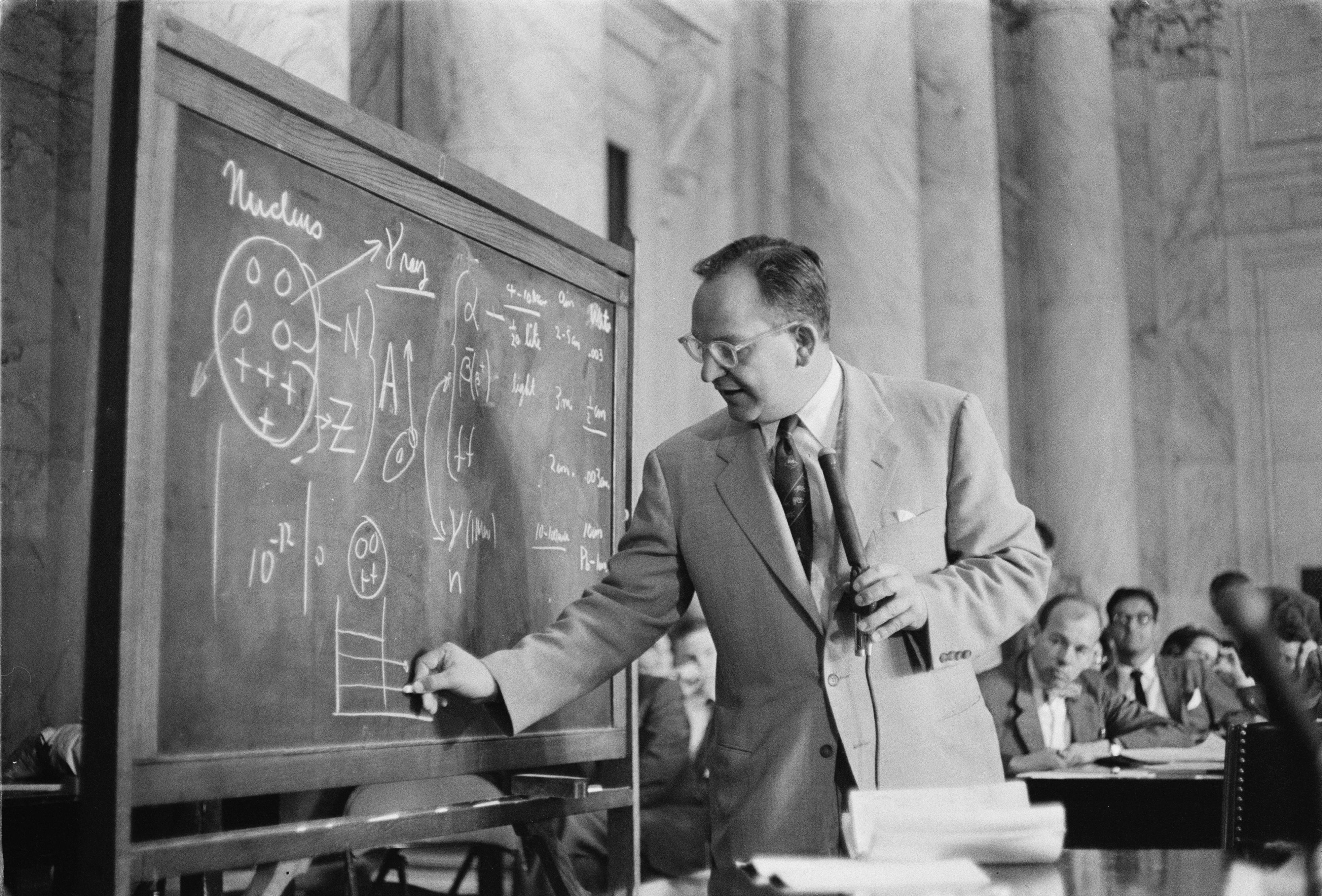 Dr. Mark Mills drawing diagrams on a blackboard during testimony before the Congressional Joint Atomic Energy Committee hearings on atomic radioactive fallout.